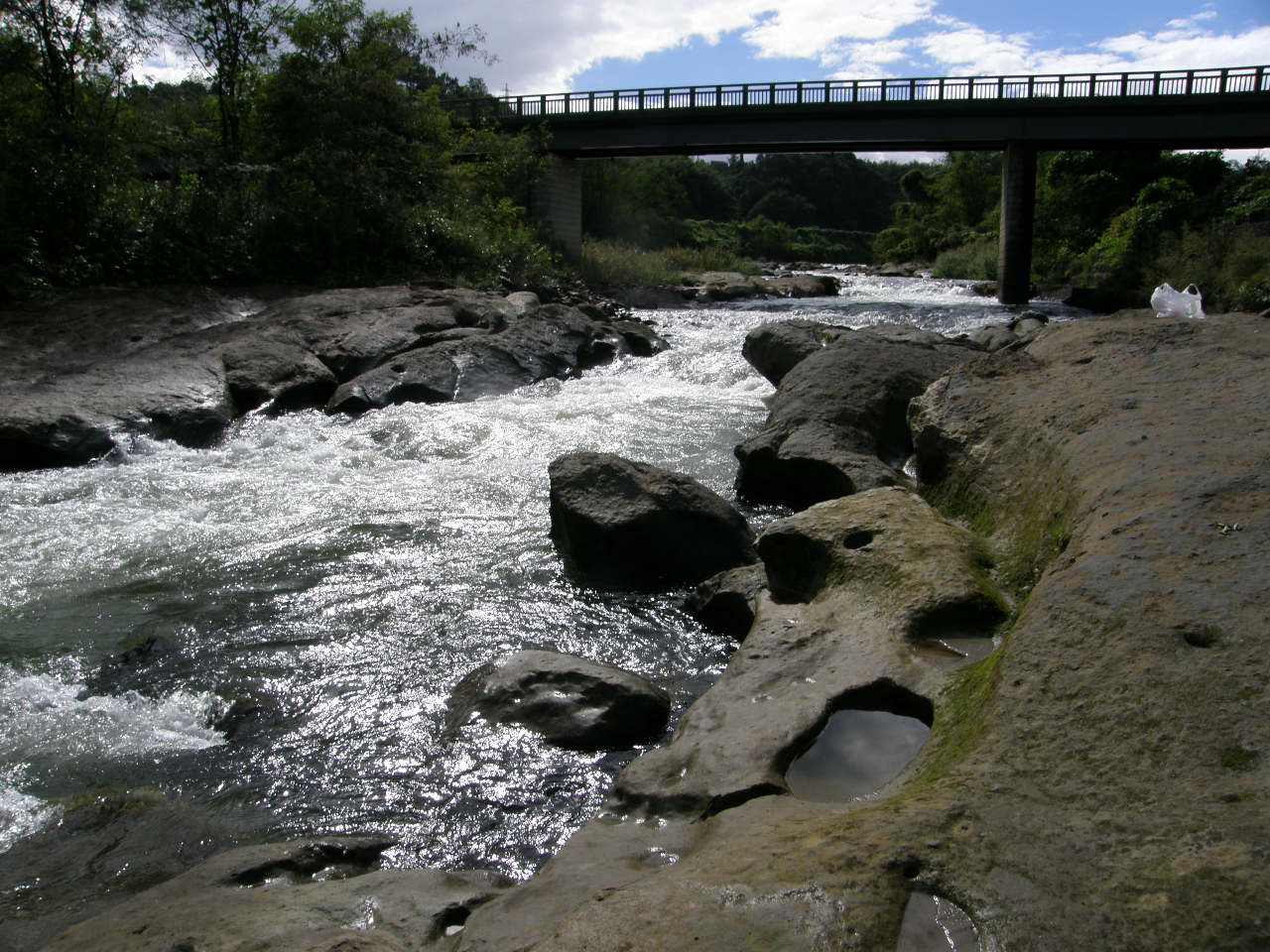 Giant's kettle-Saigawa